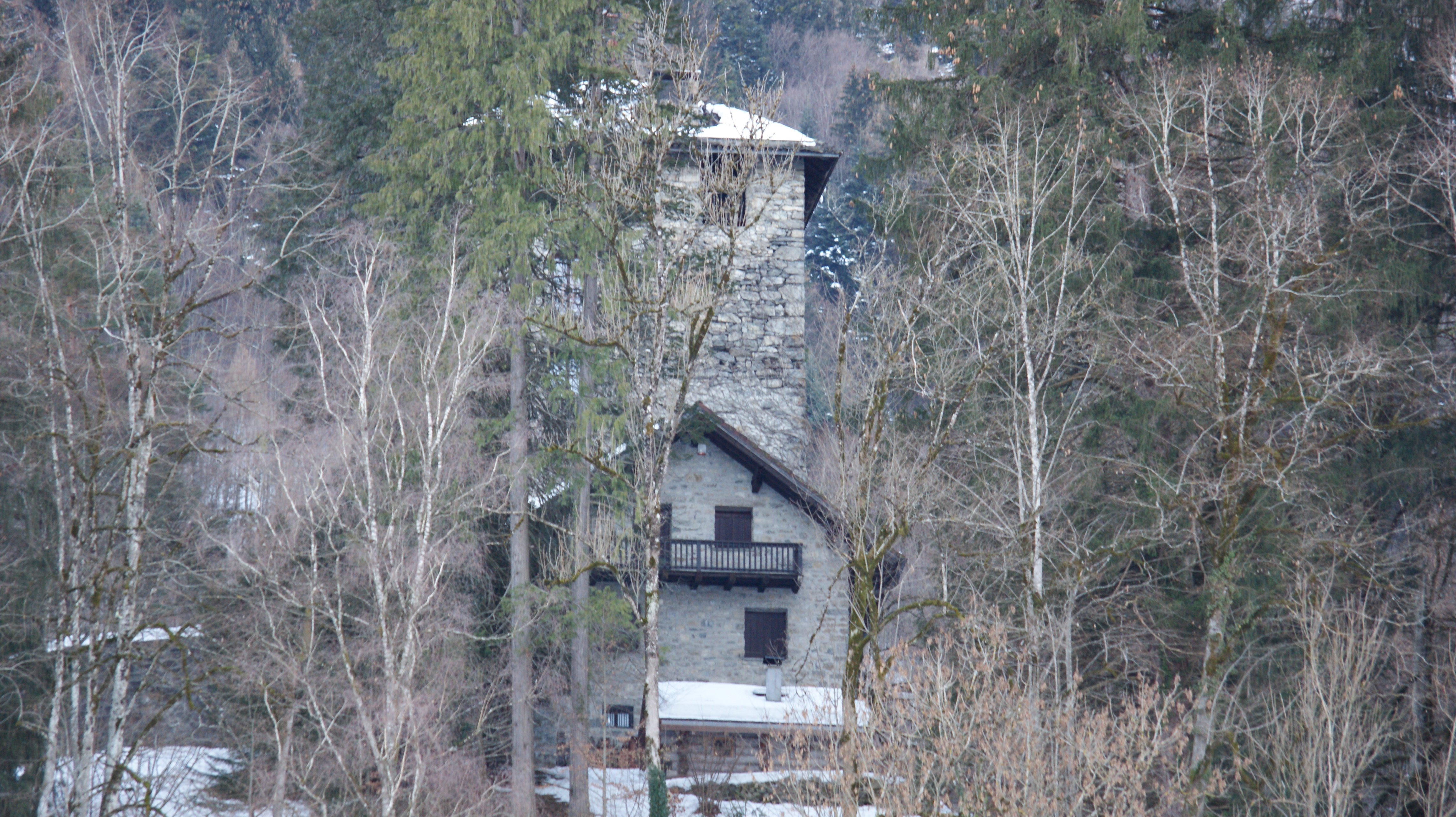 Burg Rosenegg on a mountain spur south of Buers. Consisting of the five-storey, square keep and an enclosure wall. Built in the middle of the 13th century, several times redesigned or rebuilt. The ring wall dates from the last reconstruction in 1939, in which older neo-Gothic elements were removed again.